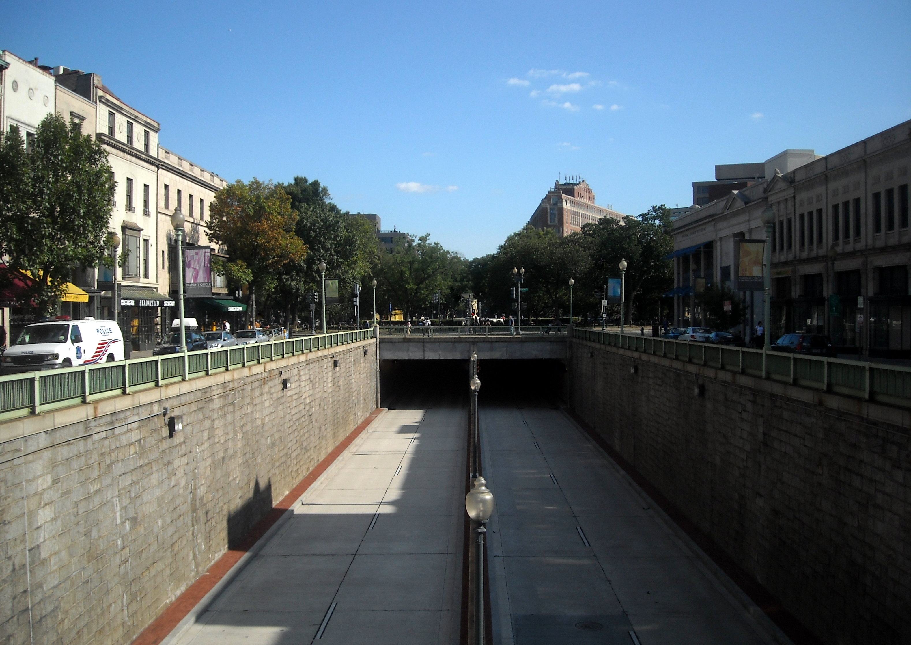 Looking south down Connecticut Avenue, NW in the Dupont Circle neighborhood of Washington, D.C.